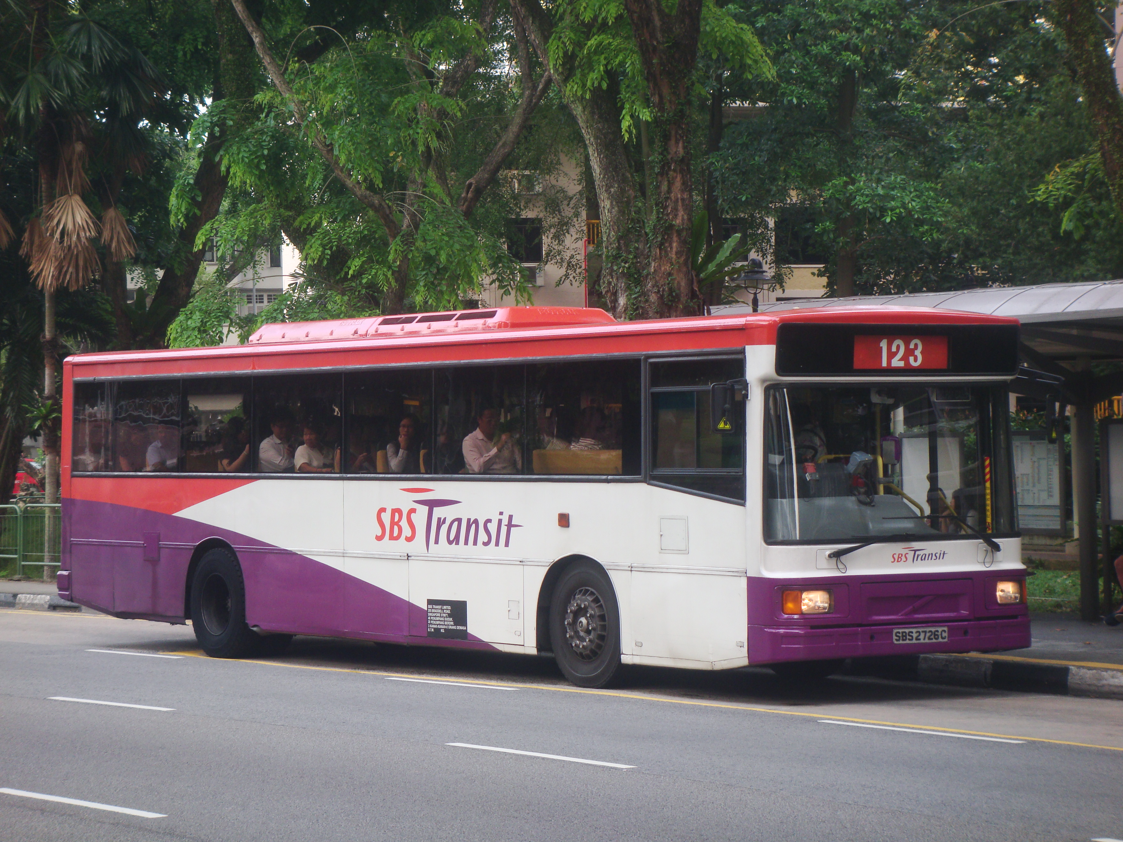 SBS Transit Duple Metsec DM3500 bodied Volvo B10M Mark IV (SBS2726C, built 1997), in Singapore.